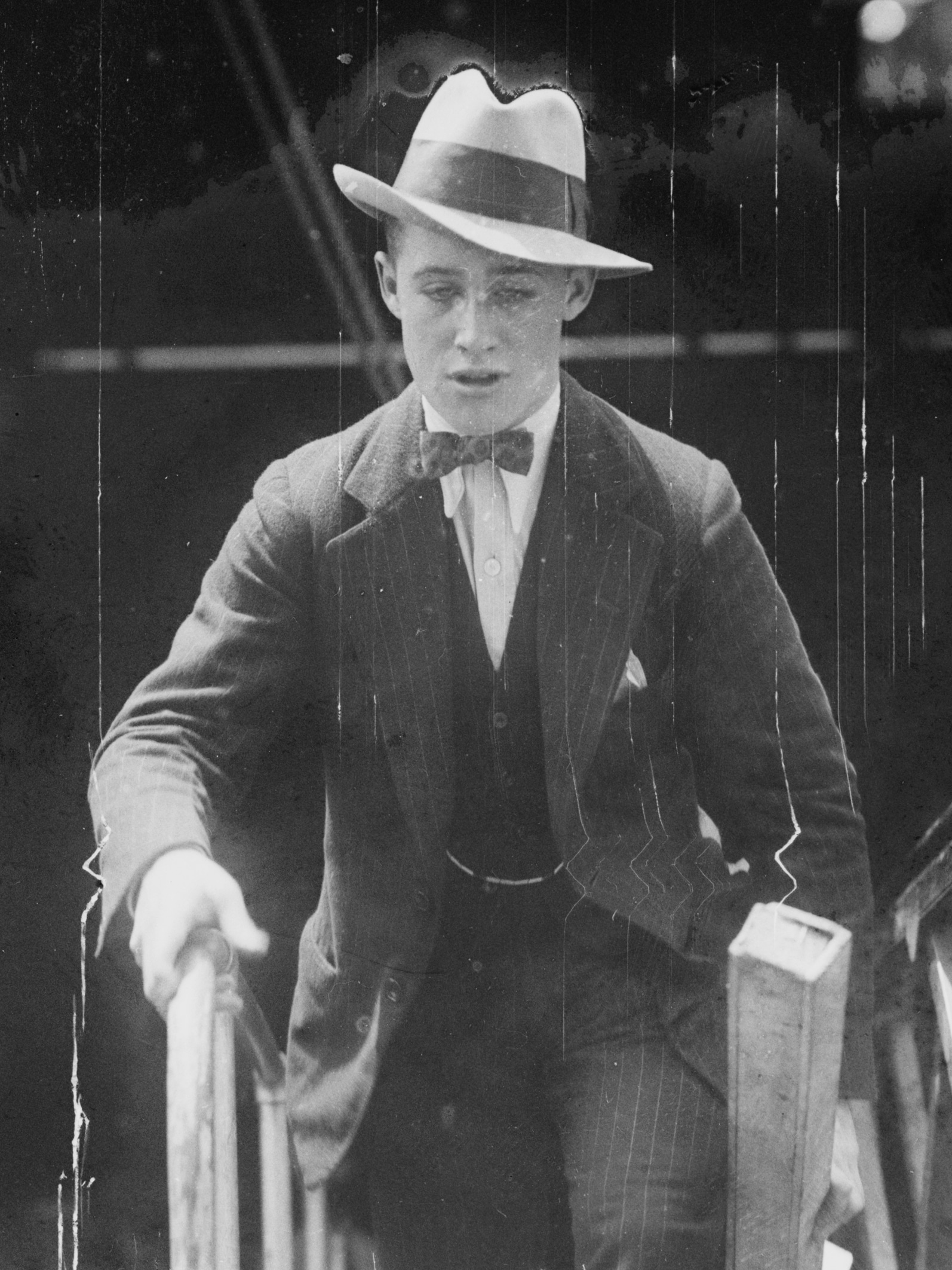 William Craven, 5th Earl of Craven